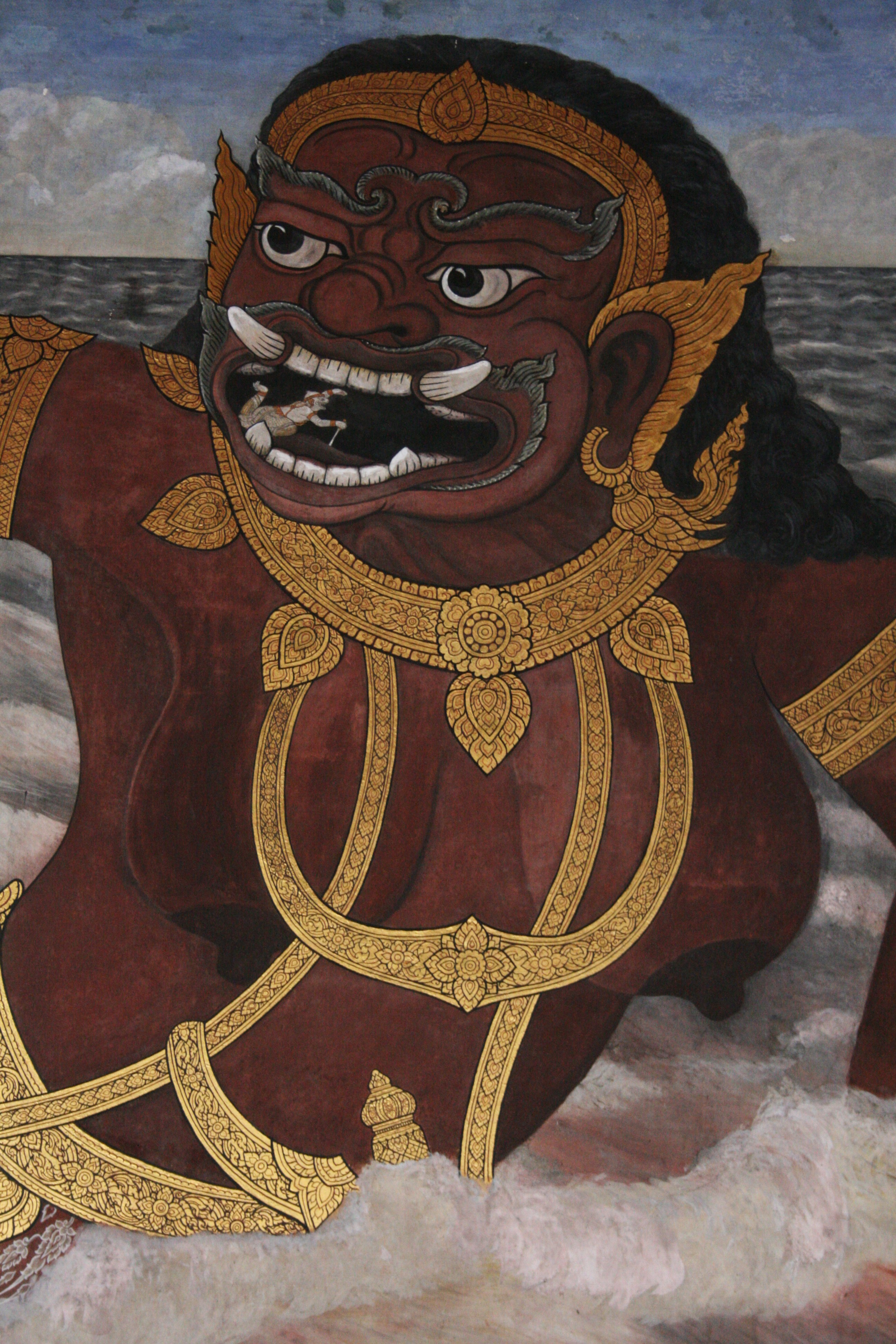 The mural of the Temple of the Emerald Buddha depicting an event in Rammakian (รามเกียรติ์; "Glory of Rama"), a Thai version of the Hindu epic Ramayana. In this photo, Hanuman (หนุมาน) flies into the mouth of the sea ogre (ผีเสื้อสมุทร phisuea samut; known in Ramayana as Surasa), the protector of the sea of Longka (ลงกา; known in Ramayana as Lanka), the realm of the demon king Rawana (ราวณะ; known in Ramayana as Ravana).